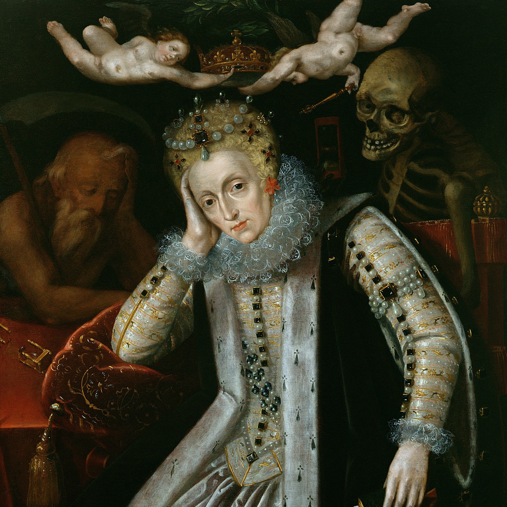 The Allegorical Portrait of Elizabeth I with Old Father Time at her right. Death is looking over her left shoulder, implies that she is close to her death, this also implies that the creator of this portrait did this far before she actually died in 1603 but posted it later so he wouldn't be punished for the connotations it has (had). There are two cherubs above her head that have removed her crown, implying she is a princess not a queen and also signifying she will no longer be queen, giving reference to her death once again.' ("English School" painting, dated around 1610)